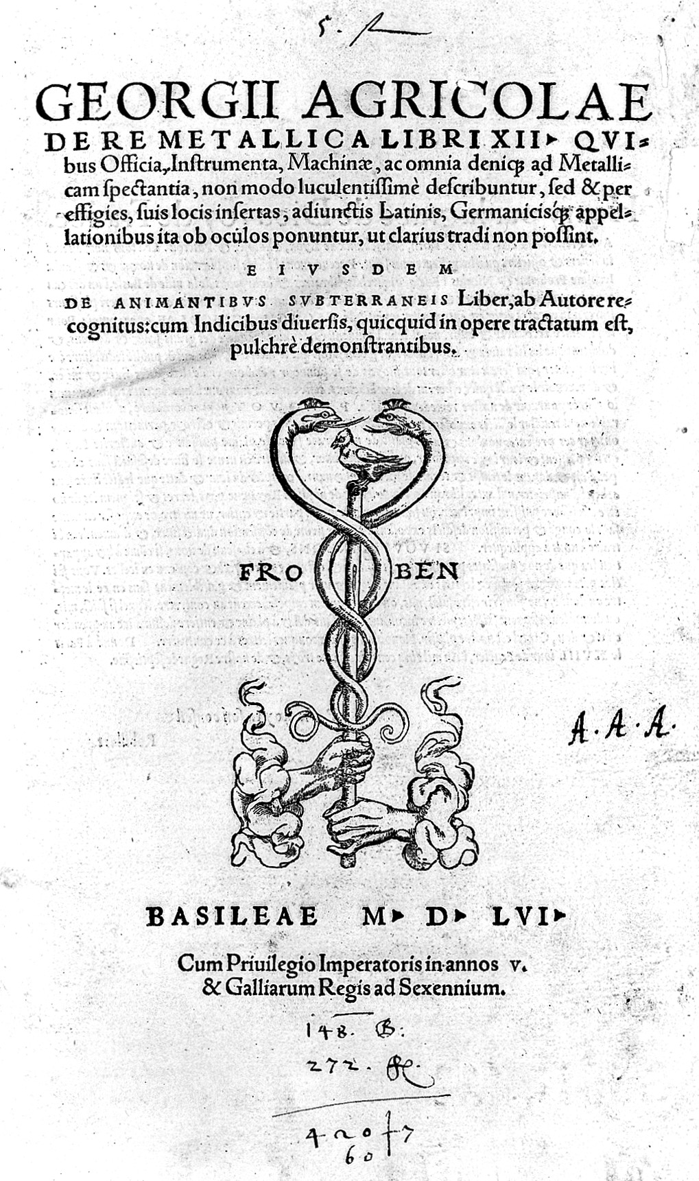 Title page Rare Books Keywords: Georgius Agricola